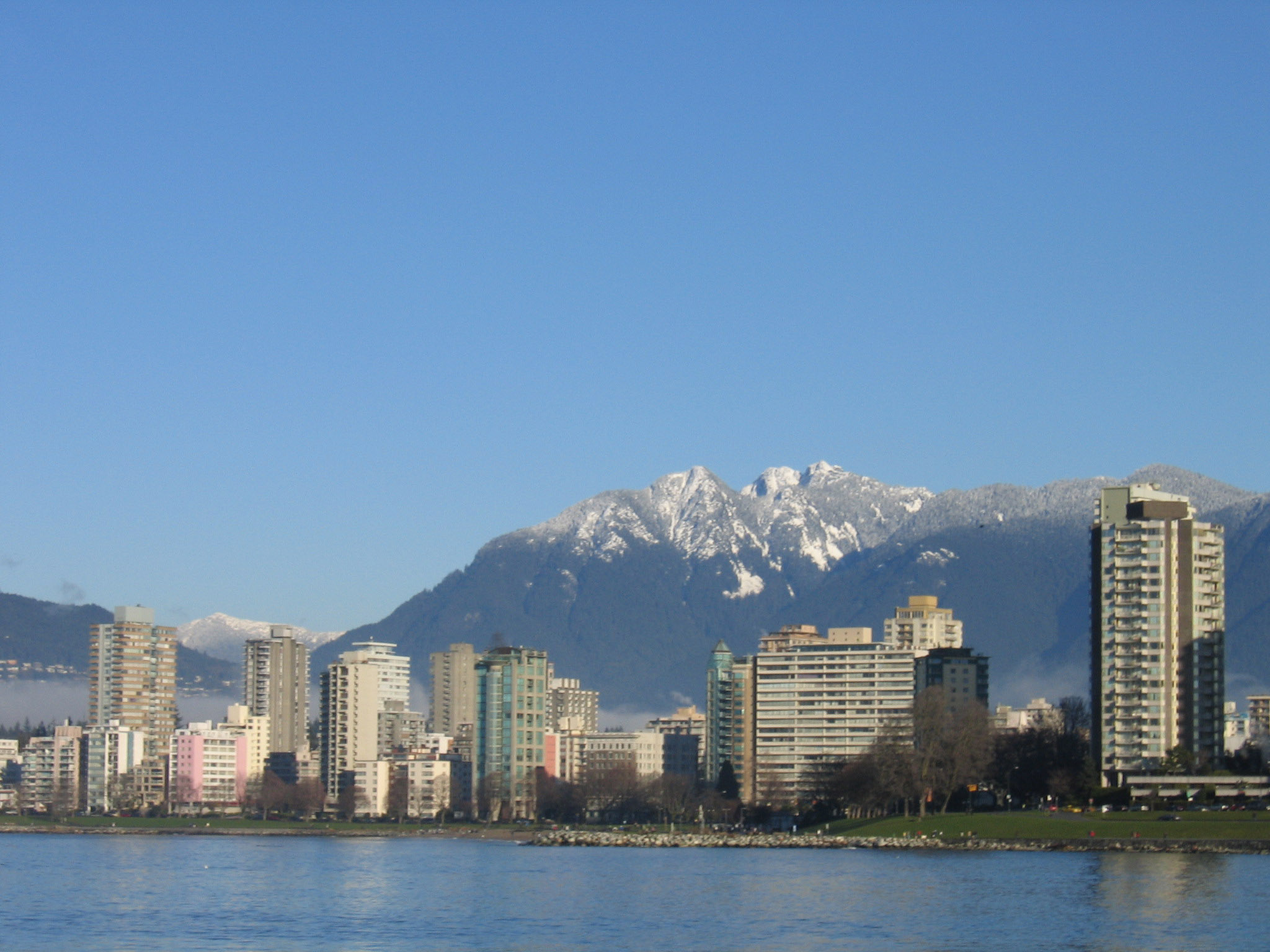 Vancouver: View of Vancouver with mountains from near Kitsilano Beach.